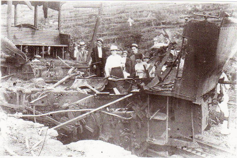 Caminho de Ferro do Monte - Old tramway in Funchal, Madeira